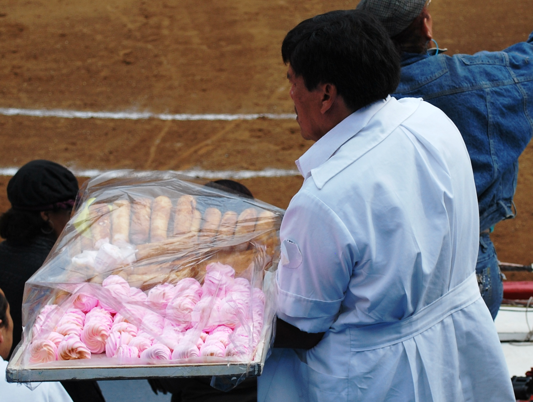 Vendor selling merengue pastries at the Plaza de Toros in Mexico City.